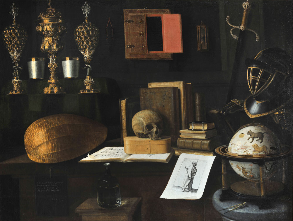 English